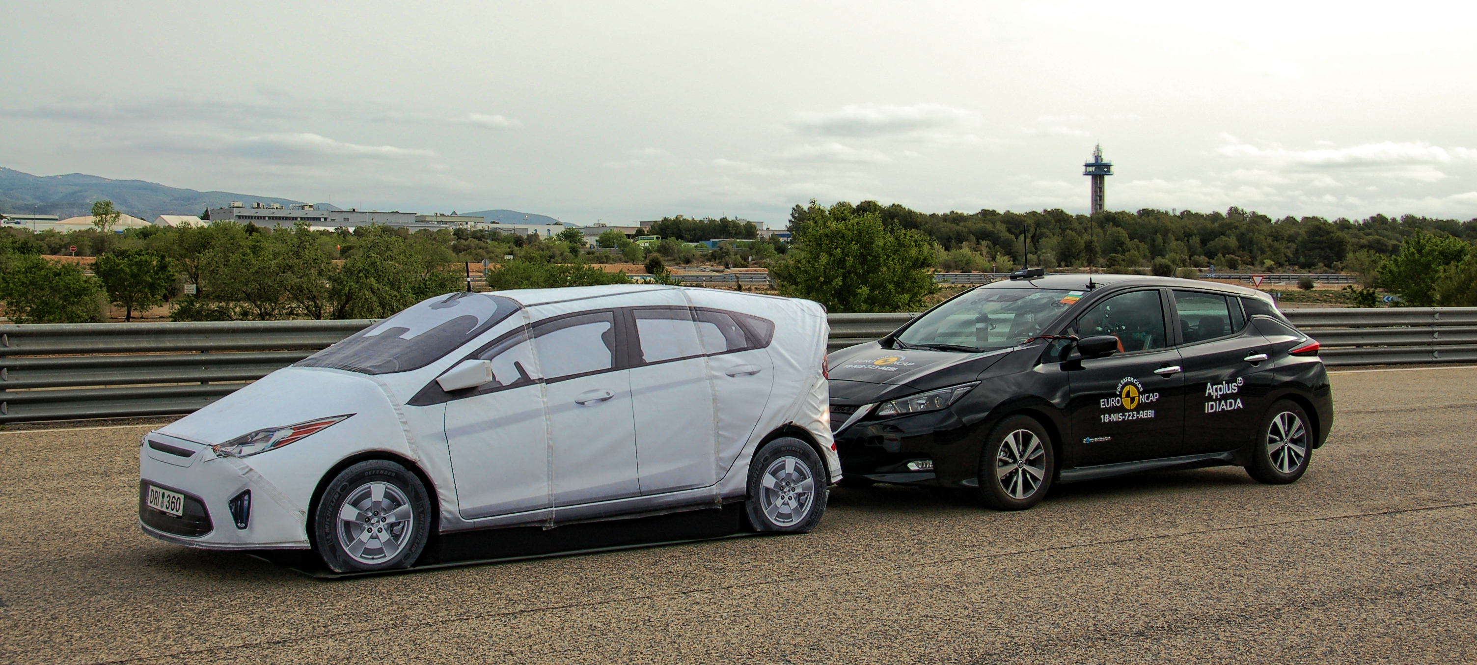 A vehicle approaching a movable target performing an Autonomous Emergency Braking (AEB) test